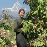 A coffee picker in Nepal